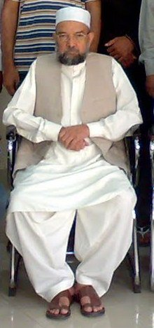 Air Commodore Muhammad Mahmood Alam in 2010